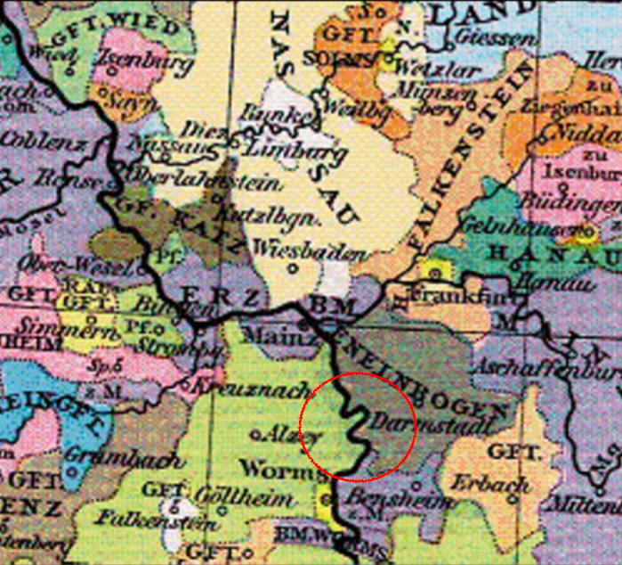 Territorial description of the Frankenstein Lordship